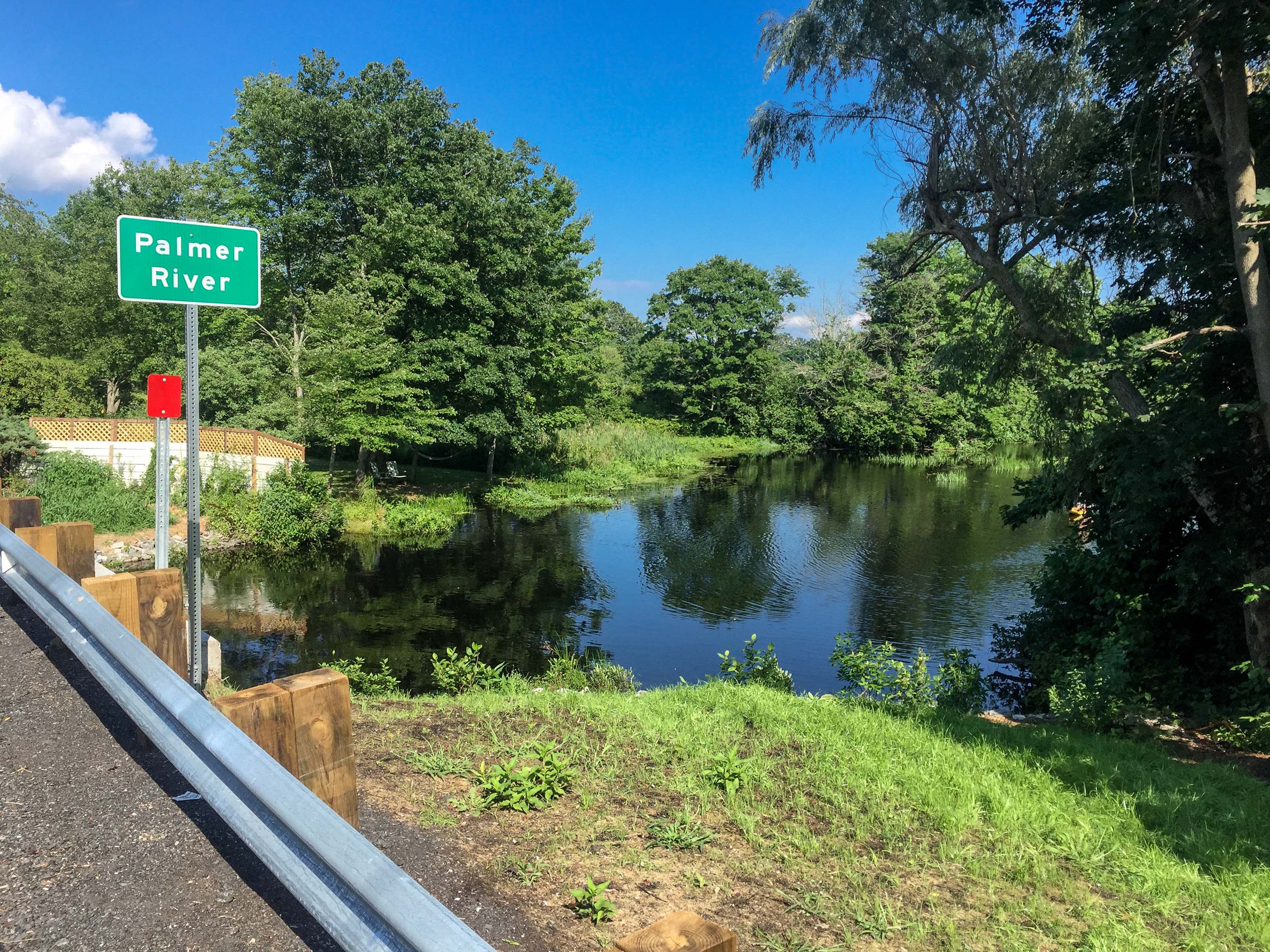 Palmer River, Rehoboth, Massachusetts. Viewed from the Wheeler Street crossing, Rehoboth.